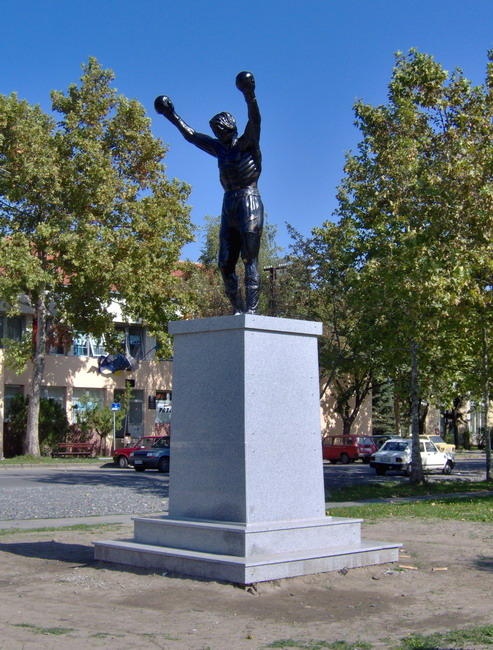 Monument of Rocky Balboa, built in 2007 in Žitište, Vojvodina, Serbia